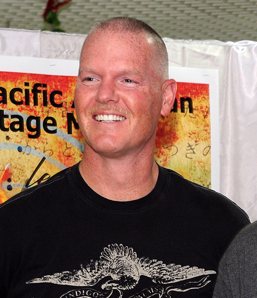 Jeff Nelson at Camp As Sayliyah, Qatar.